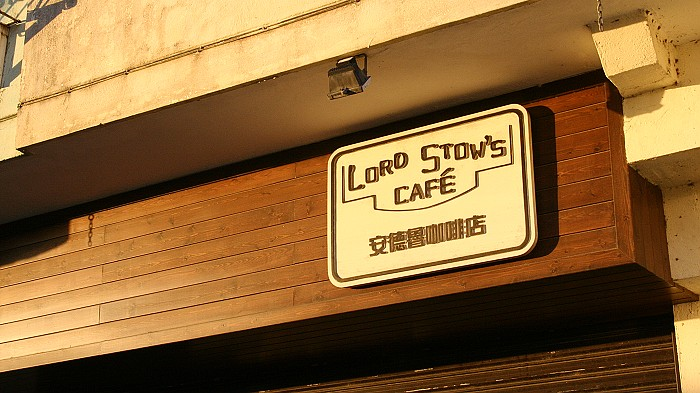 Lord Stow's Bakery